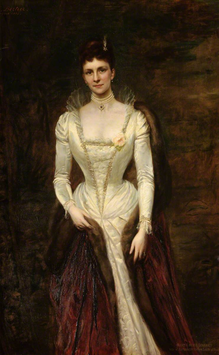 Lady Forbes-Leith nee Mary Louise January (d 1930), three-quarter-length in white evening dress SGN & DATED, NY Francisque Edouard Bertier (b1840-1 Portrait of Marie Louisa January, Wife of Baron Leith of Fyvie Oil on canvas 1888 Francisque Edouard Bertier was a French artist, born in Paris in sometime 1840-41, and educated in the studios of Bourguereau and Cabanel. After achieving success in Paris, he visited America in 1886 upon the French ship Champagne. Bertier travelled in first class along with the celebrated portraitist Michel-Lleb Munkacsy (1844-1909) and his name is on the list of passengers. The artist went on a new journey to the United States three years later; according to the registers of immigration, “F-E Berthier, forty seven years old, French painter arrived in New York on October 21, 1889 on the Gascogne from Le Havre” (French translation). Bertier opened a studio in New York where he painted many portraits and genre subjects, and where his home was the centre of a refined social circle. He died upon his return to France (after 1900). Whether Bertier knew Alexander Forbes-Leith before he travelled to America is not known yet. One possible explanation is the artist met either Forbes-Leith or his wife in 1886 in the US and painted a portrait of Lady Forbes-Leith in 1888 either in the US or Europe (from the biographies it is not clear if Bertier returned to Europe in 1886, 87 or 88). He painted a second portrait of their son in 1890, when the artist was definitely in the US and in all likelihood before the Forbes-Leith family left the US and settled in their new home in Fyvie (sometime after 1889-1890). It is not known if Forbes-Leith travelled much to Fyvie in 1889-1890, as he was in the process of setting up the world’s biggest steel company.